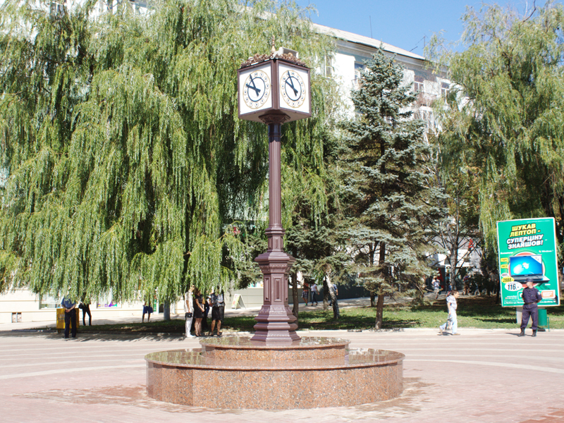 tyebhey